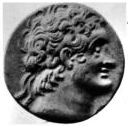 Ptolemeaus X Soter II, Alexandria (BMC 7, Sear 7912 — Ptol. IX Soter)